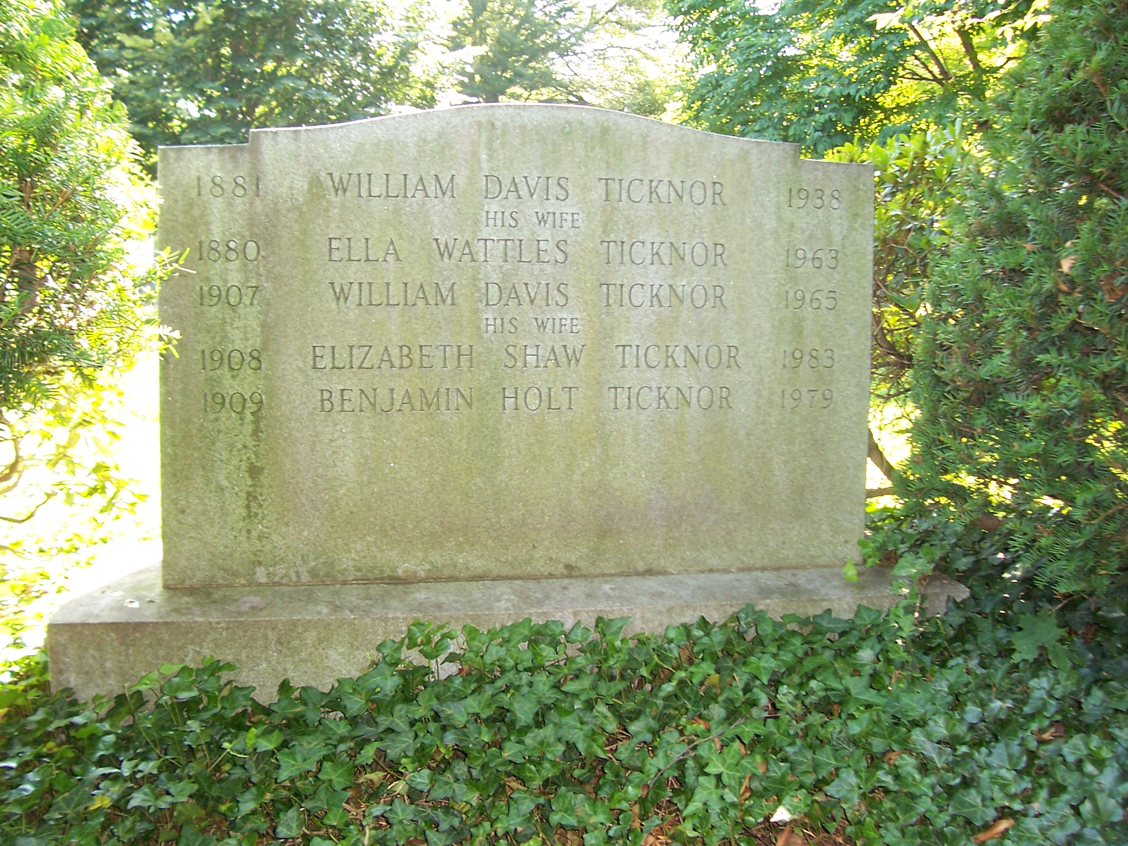 The headstone of the Ticknor family plot, Mount Auburn Cemetery in Cambridge, Massachusetts.